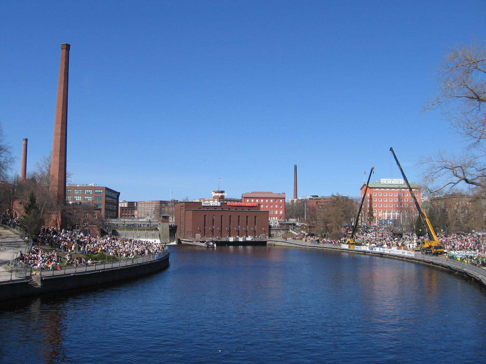 Teekkari students being baptised, May Day 2009, Tampere